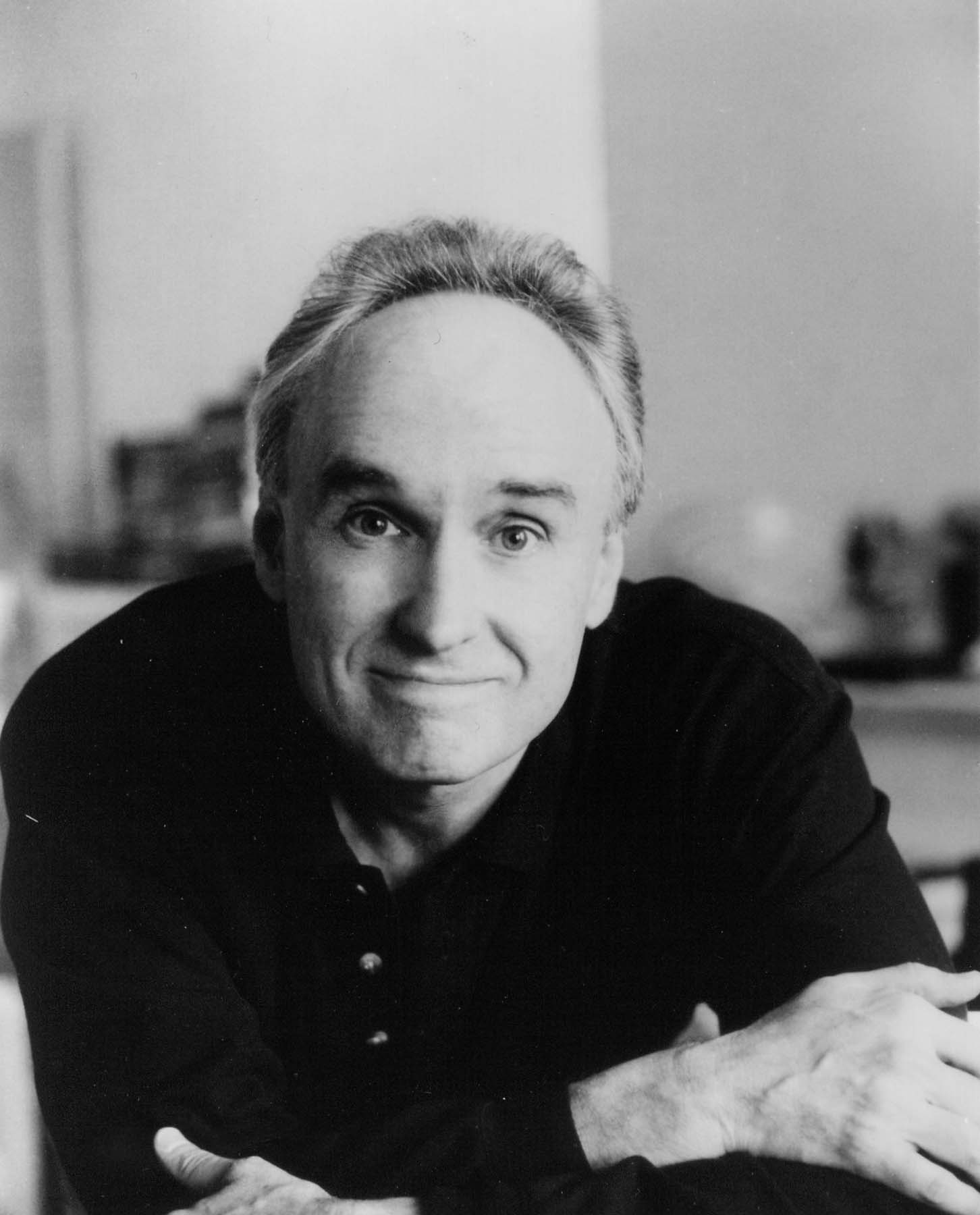 A photo of Frank Bidart.